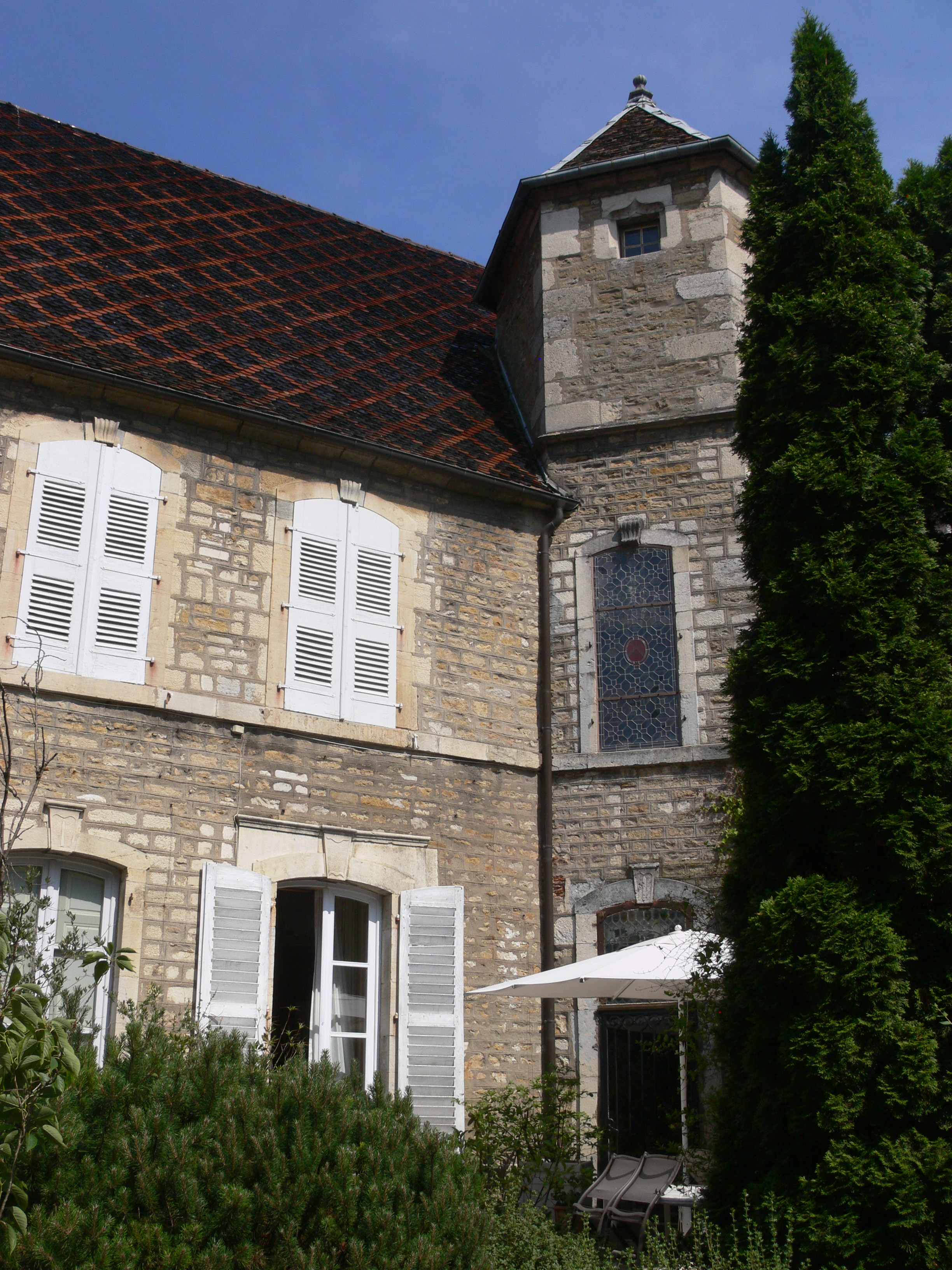 Hôtel Thomassin à Vesoul (Haute-Saône, France) from the courtyard